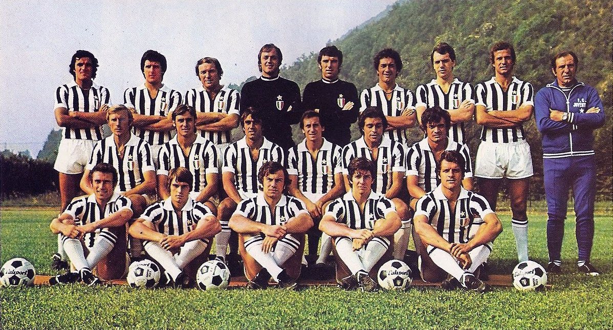 Villar Perosa (Italy), Summer 1975. The first-team squad of Juventus F.C. in the 1975–76 preseason. From left to right, top: A. Cuccureddu, G. Scirea, J. Altafini, G. Alessandrelli, D. Zoff, C. Gentile, R. Bettega, L. Spinosi (II), C. Parola (coach); centre: F. Morini, A. Marchetti, P. Anastasi (captain), G. Furino, F. Causio, S. Gori; bottom: O. Damiani, M. Tardelli, G. Savoldi (II), P. Rossi, F. Capello. Later, Marchetti and Rossi were sold in the autumnal transfer window.